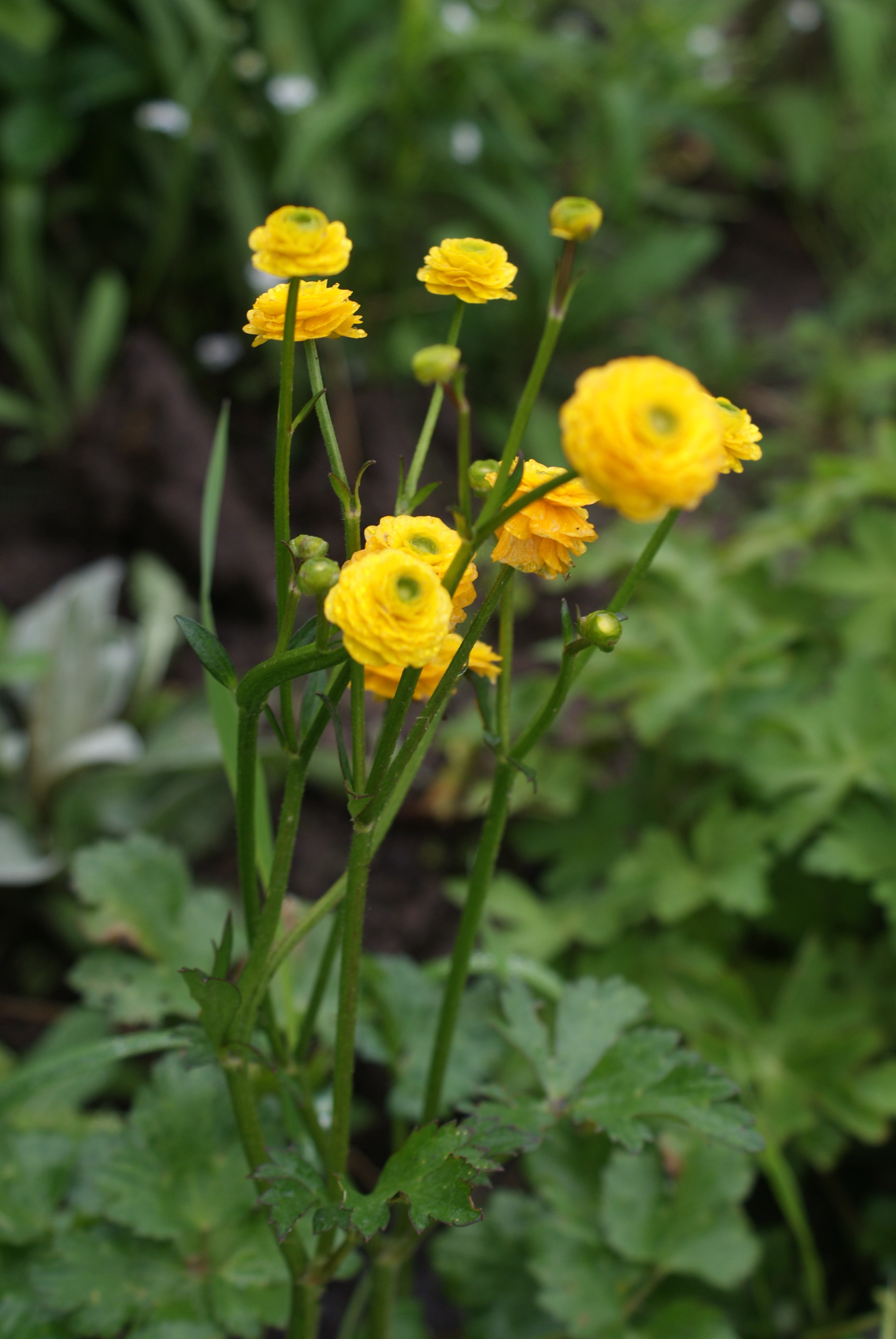 Unidentified plant in Barysau district